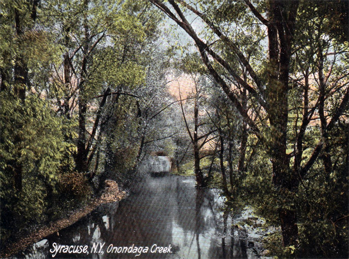 Onondaga Creek in Syracuse, New York about 1900